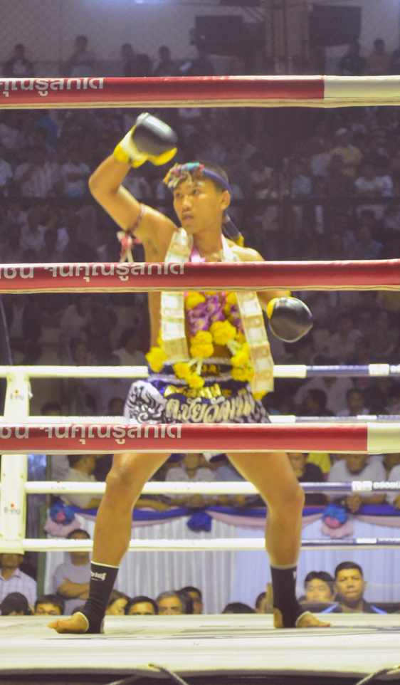 Superbank M. Rattanabandit